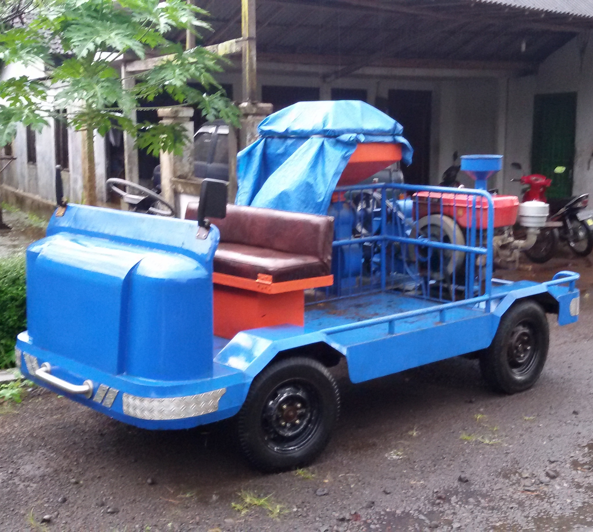 Modified grandong in Java